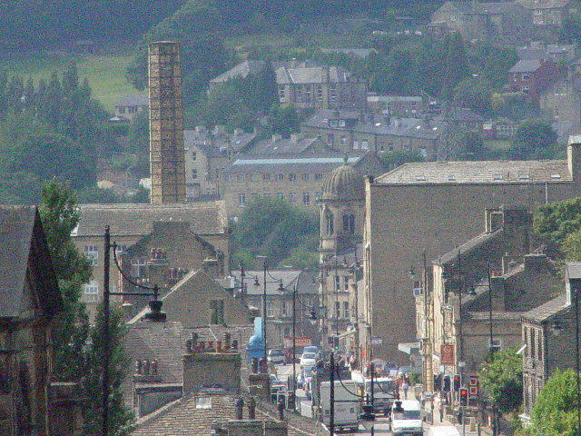 Sowerby Bridge Original description: Sowerby Bridge from Bolton Brow